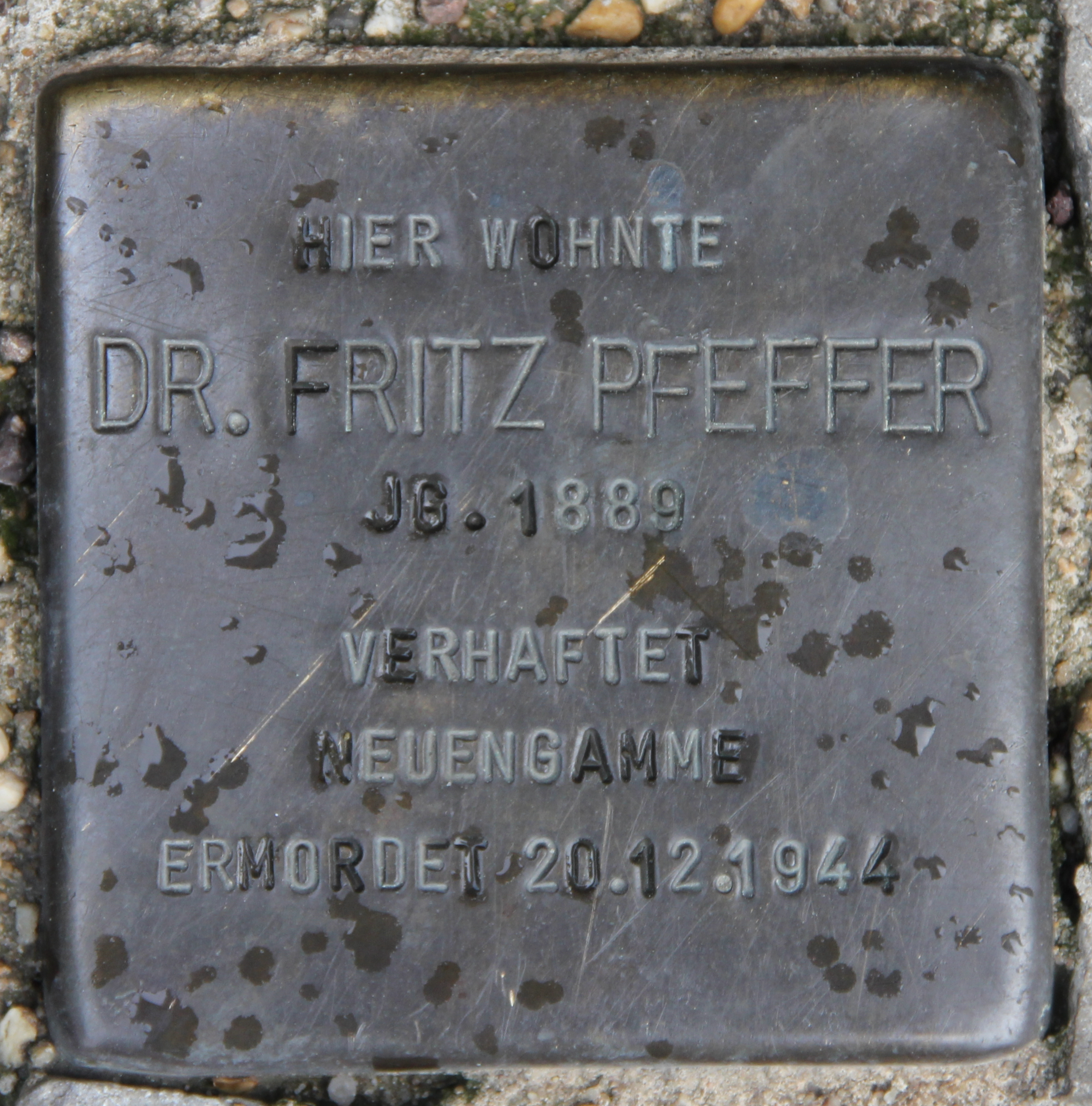 "Stolperstein" (stumbling block), Fritz Pfeffer, Lietzenburger Straße 20b, Berlin-Schöneberg, Germany